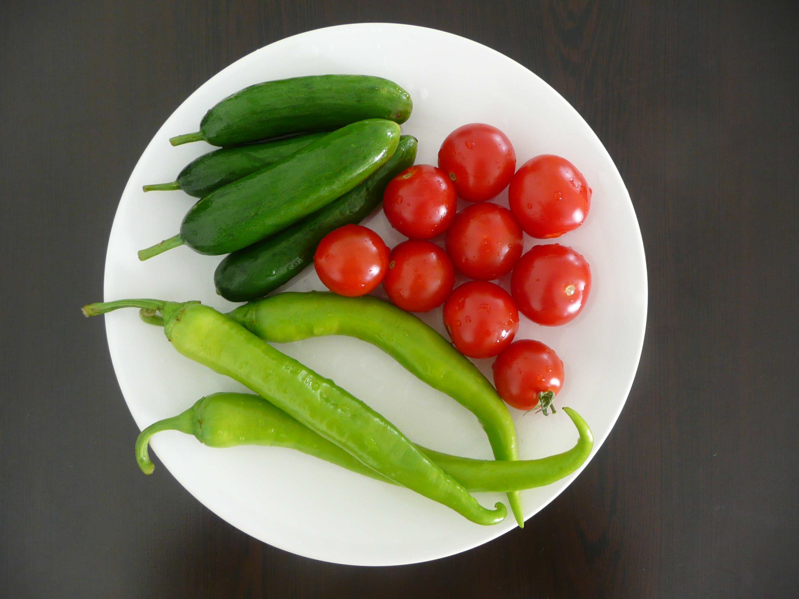 Vegetables.